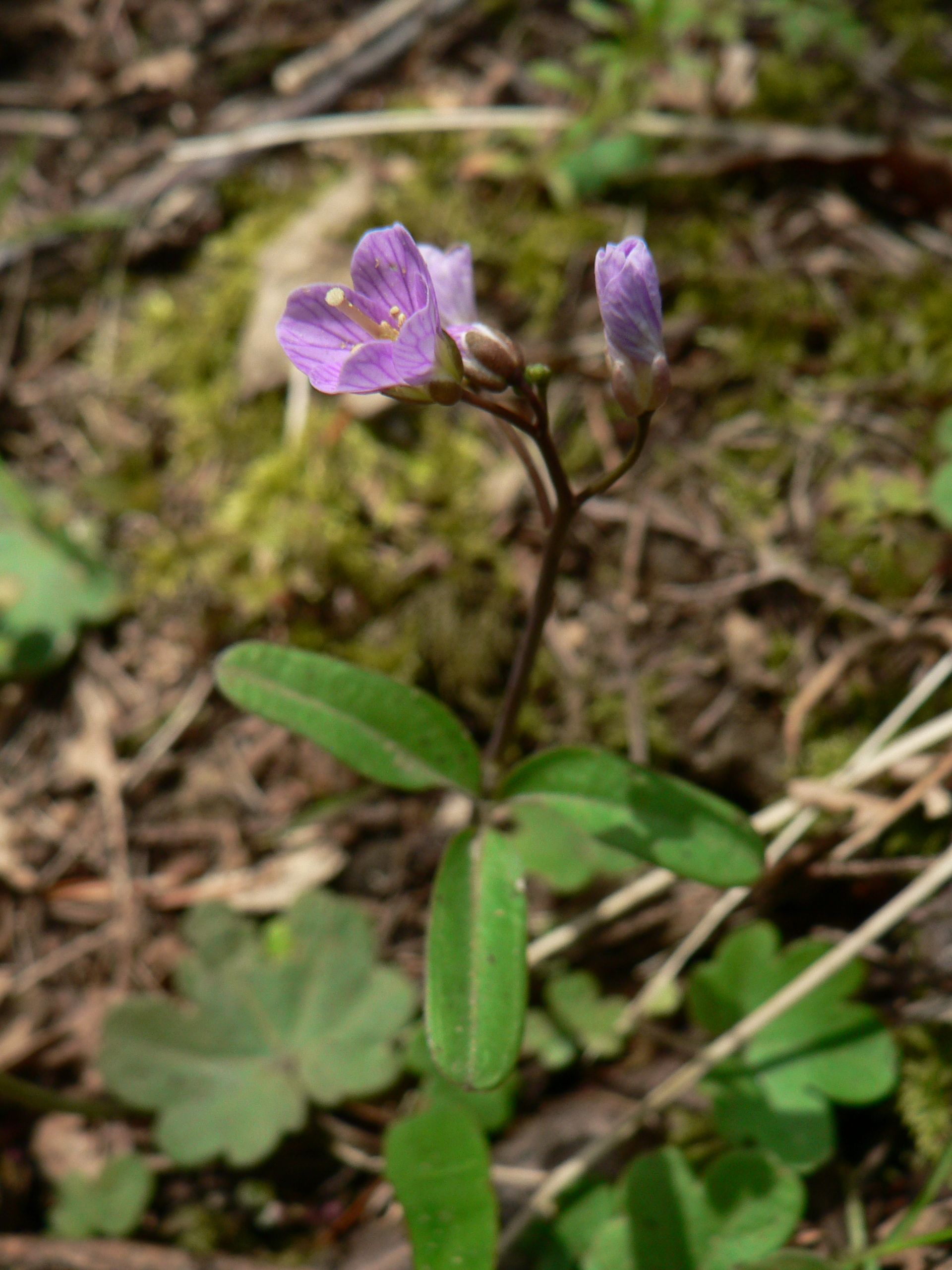 Nuttall's Toothwort, Slender Toothwort